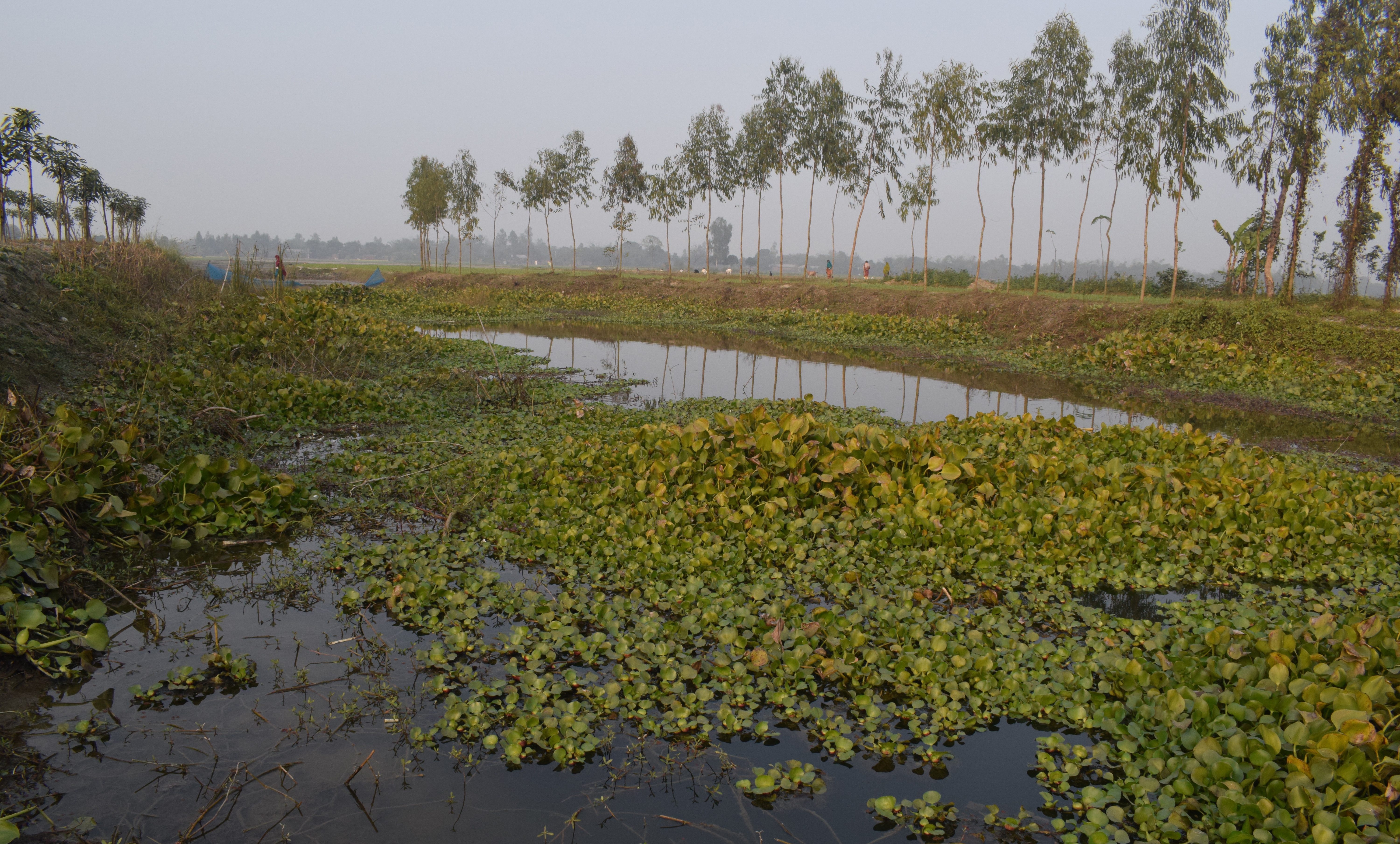 Gondor River upstream side at village Damol.